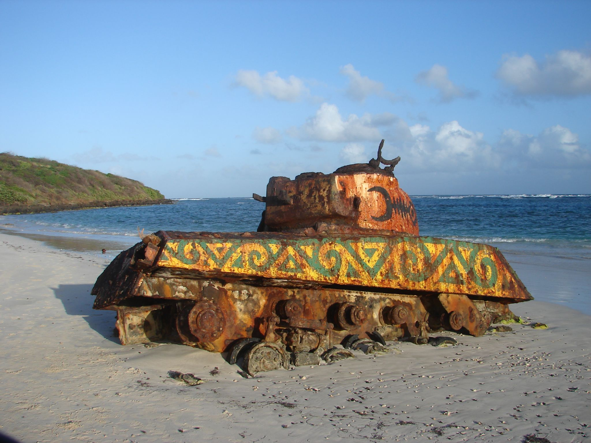 Tank on Flamenco Beach, on the island of Culebra, in Puerto Rico. The U.S. Navy used to practice shelling this beach, which is now considered one of the ten most beautiful in the world.